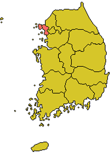 Diocese of Incheon